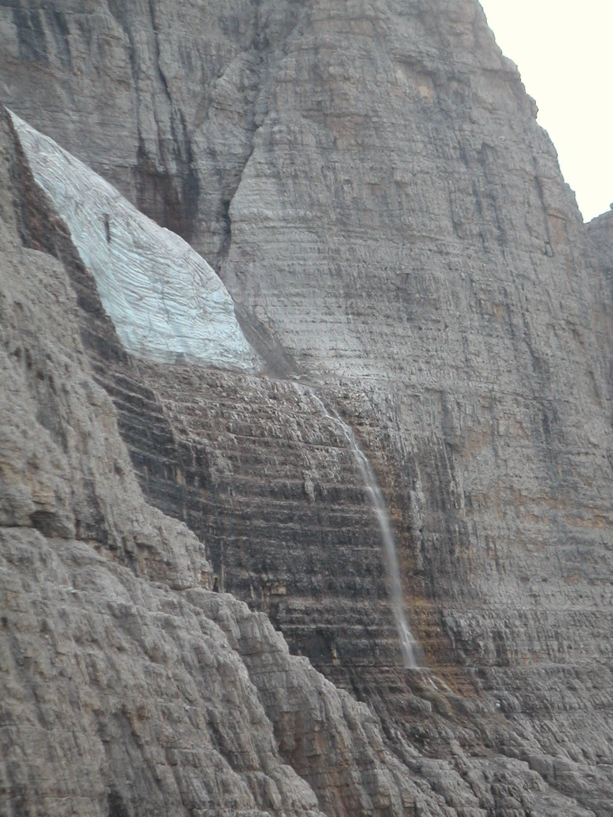 On Cima Brenta, the Vedretta di Brenta Superiore, the 'upper' glacier descends the mountain, being cut off by a vertical precipice above the Vedretta di Brenta Inferiore. Here it is shown during the abnormally hot summer of 2003 - like a melting popsicle.